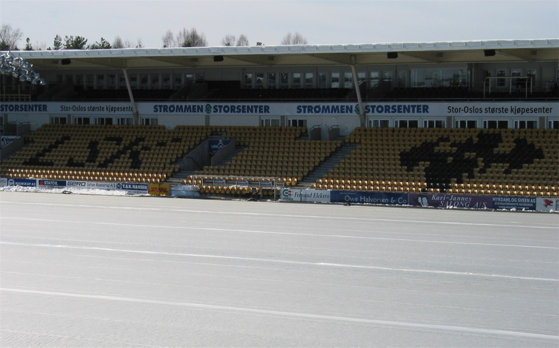 Åråsen stadion in Kjeller/Lillestrøm, Norway. Taken by me on March 25, 2006 and cropped/resized.